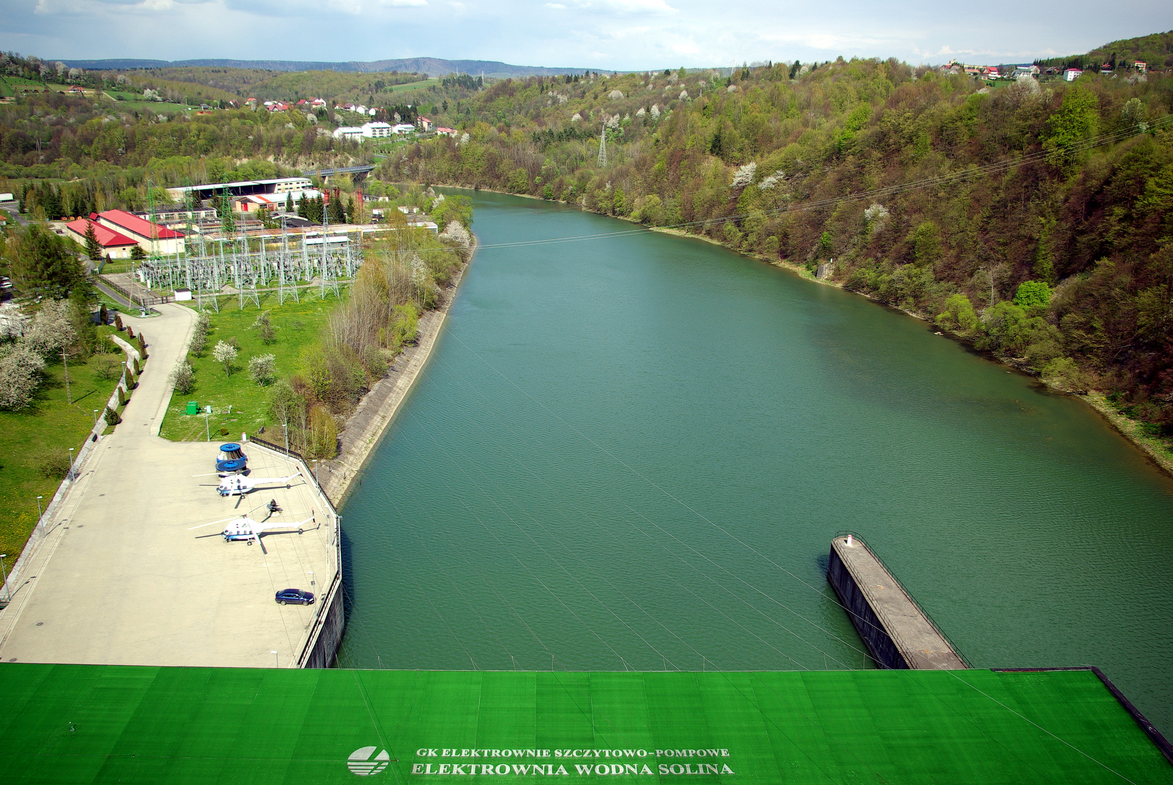 View from dam on San river (north)